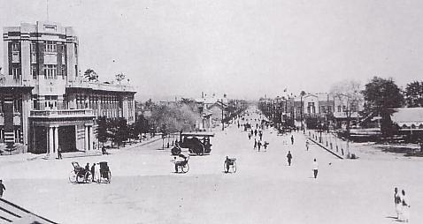 View of Andong(present-day Dandong)